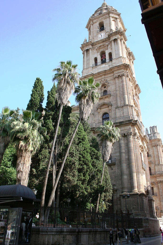 Malaga Cathedral.